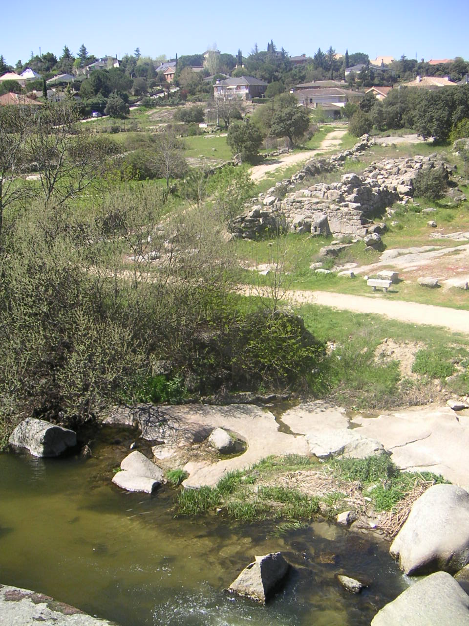 Picture from La Navata, residential area of Madrid, Spain.